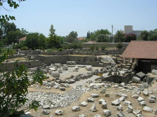 Mausoleum in Bodrum, Turkey; originally: Mauzoleum w Bodrum, Turcja